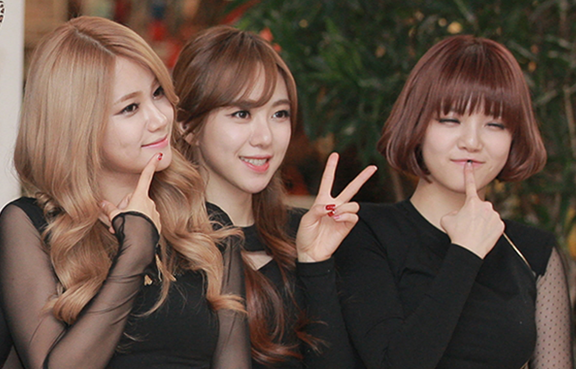 AOA Black at Gimpo Airport, Seoul in October 2013.